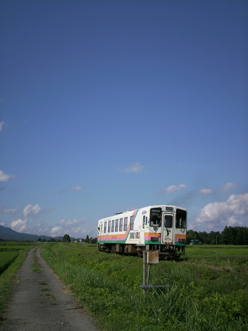 The movie "SwingGirls" painted train; Series YR-880 of Yamagata Railway.